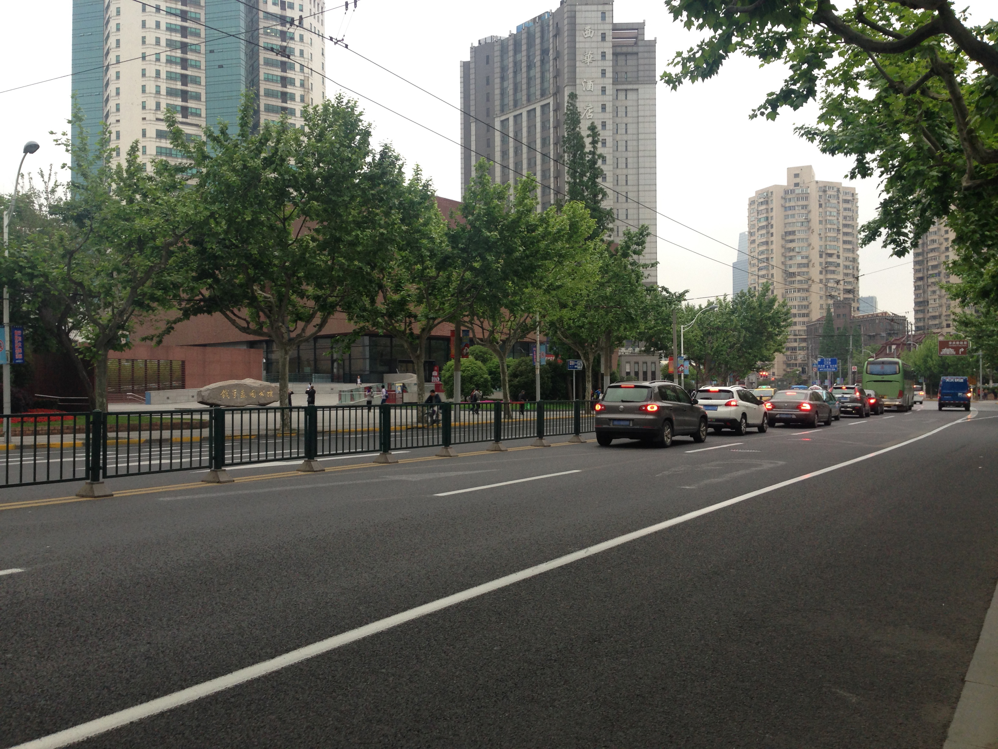 Huashan Road in Shanghai, south of Huaihai Road, near Qian Xuesen Library.